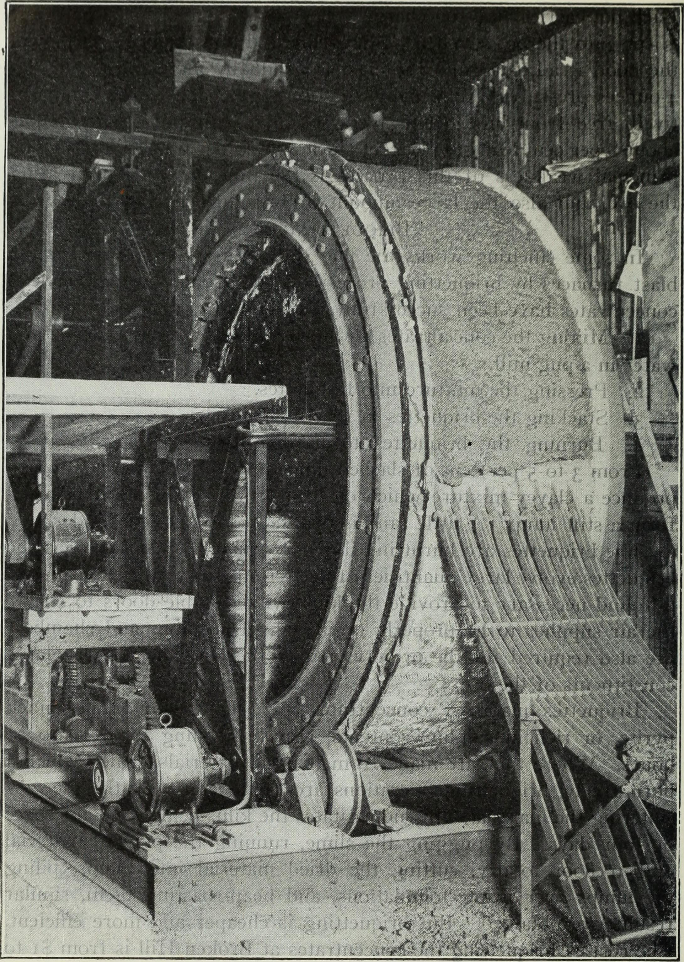 Title: Factory and industrial management Year: 1891 (1890s) Authors: Subjects: Engineering Factory management Industrial efficiency Publisher: New York (etc.) McGraw-Hill (etc.) Text Appearing Before Image: THE DWIGHT AND LLOYD SINTERING PROCESS. As a result of investigations relating to the conditions affecting thesintering of the charges in the blast pot, Messrs. Dwight and Lloyd found that better results are obtainable when operations are conducted so that: (i), treatment is made continuous; (2), the material is kept 862 THE ENGINEERING MAGAZINE. Text Appearing After Image: DWIGHT-LLOYD SINTERING MACHINE, DRUM TYPE, SHOWING STRIPPING GRIZZLY in a quiescent condition; (3), a thin layer, charge or succession of charges is employed. The maintenance of the charge in a state of complete quiescence is essential to good sintering. It appears that to obtain the, best results THE METALLURGY OF LEAD AND ZINC. 863 all the ore particles must remain in practically the same relative position, in close contact with their neighbors, and subject to similar thermal reactions, during- the period of itnaximum temperature at the end of the operations.